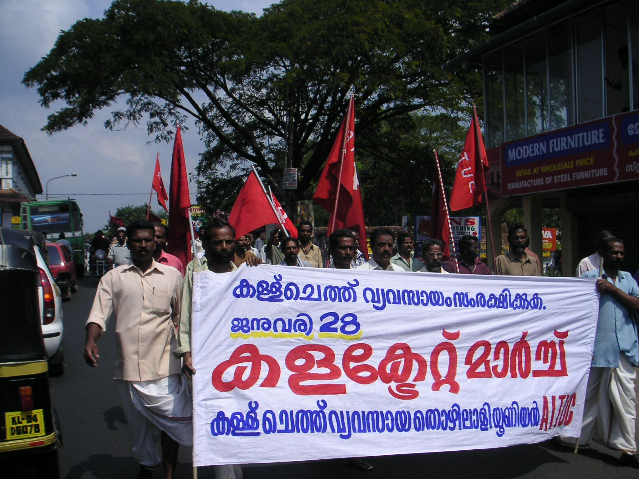 All India Trade Union Congress toddy workers stage manifestation in Allepey, Kerala.